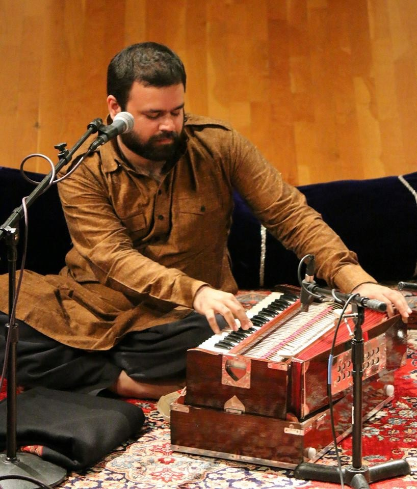 Sufi singer Dhruv Sangari (Bilal Chishty Sangari) during a performace at the Trianon Theater, San Jose, USA in 2015.